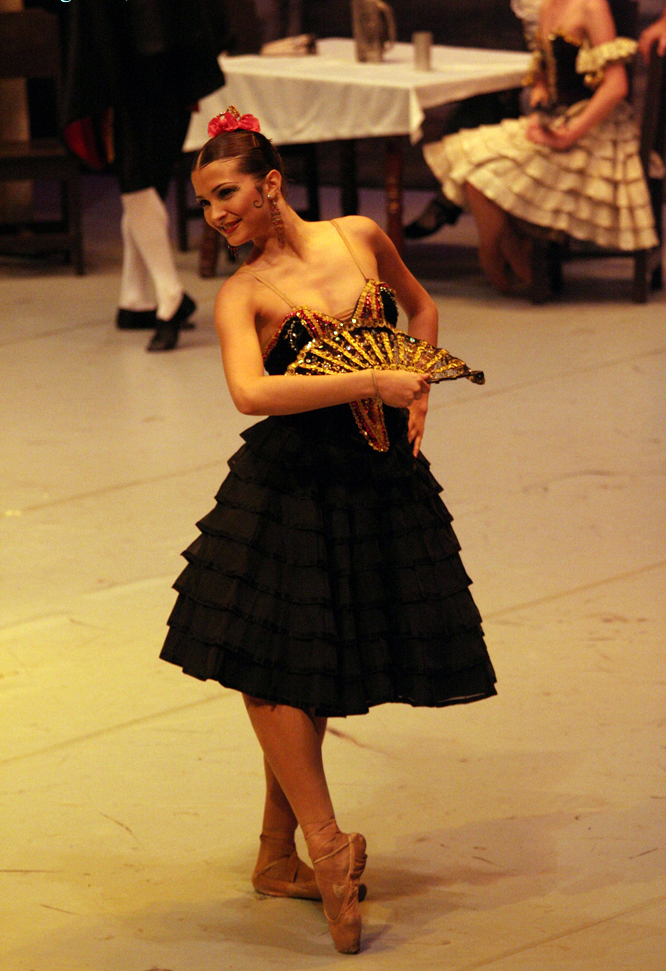 A scene from "Don Quijote", at Teatro Nacional Rubén Darío, Nicaragua.